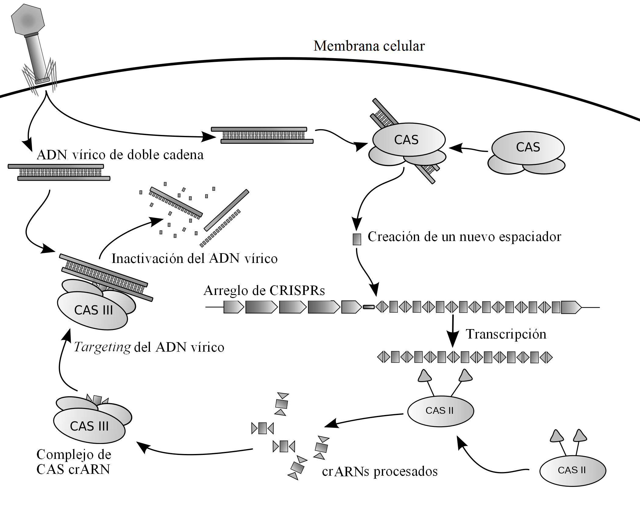 Possible mechanism of CRISPR, on Spanish. Translation of James Atmos adaptation from Horvath and Barrangou.